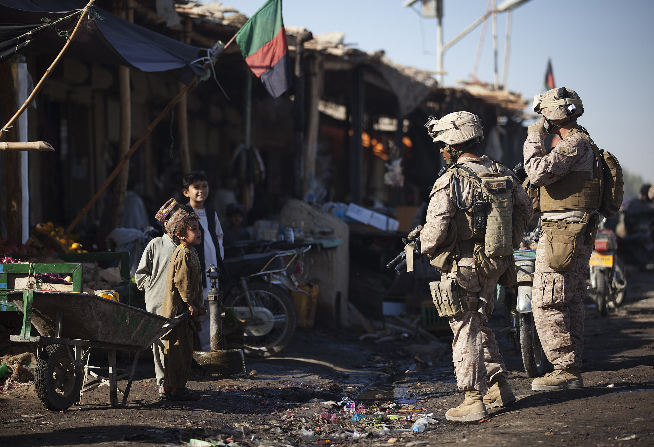 Original Caption: "U.S. Marine Cpl. Joshua Melendez, 26, a squad leader from Anaheim, Calif., and Lance Cpl. Joseph Streeby, 23, an artillery forward observer from Princeton, W.V., interact with local children during a security patrol here, Nov. 12. Melendez and Streeby are with Headquarters and Service Company, 3rd Battalion, 3rd Marine Regiment. During the patrol, they interacted with children and spoke with local leaders. “America’s Battalion” recently arrived in Garmsir to relieve 1st Battalion, 3rd Marine Regiment. They’ll partner with the Afghan National Security Forces to establish a secure environment and develop district government to better meet the needs of the Afghan people."